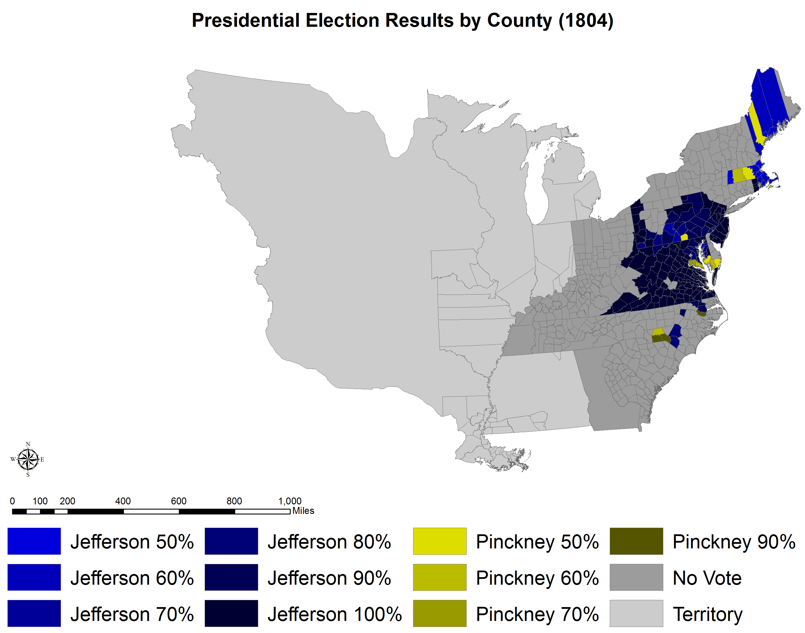 Presidential election results by county (1804).